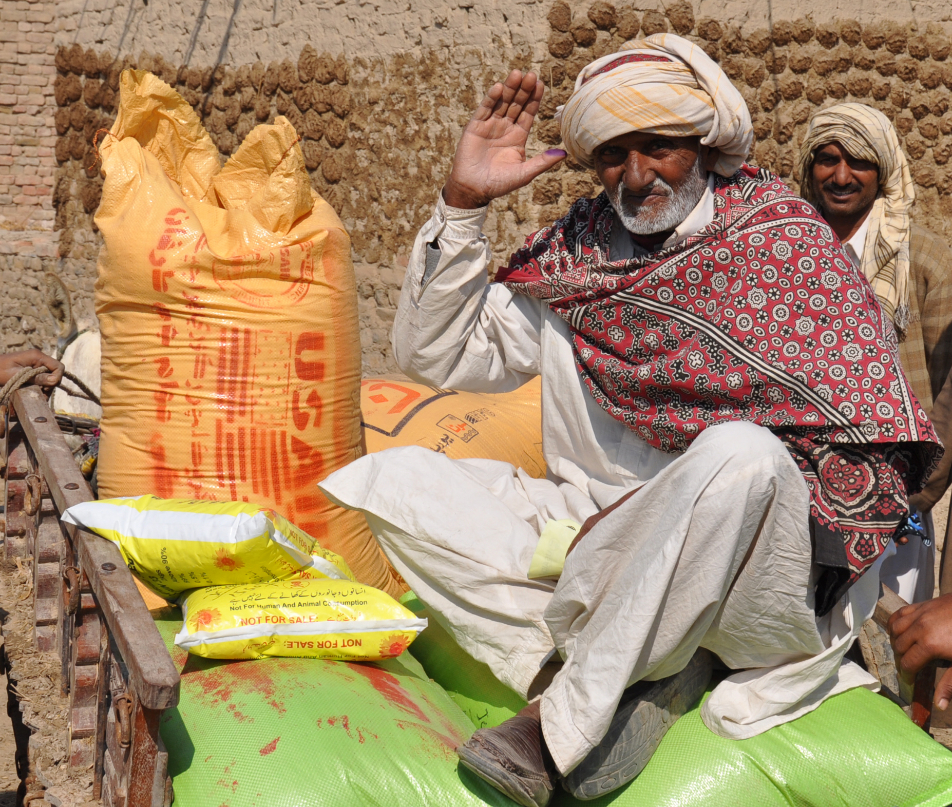 Jacobabad, February 2011 - A farmer from Jacobabad takes home seeds and fertilizer provided by the American people through USAID. USAID’s $15 million Sindh Agricultural Recovery Program is helping Sindh farmers plant crops in flood-affected areas. The program is implemented by Rural Support Programs Network, Sindh Rural Support Organization, the Sindh Abadgar Board, and other local organizations such as National Rural Support Program.